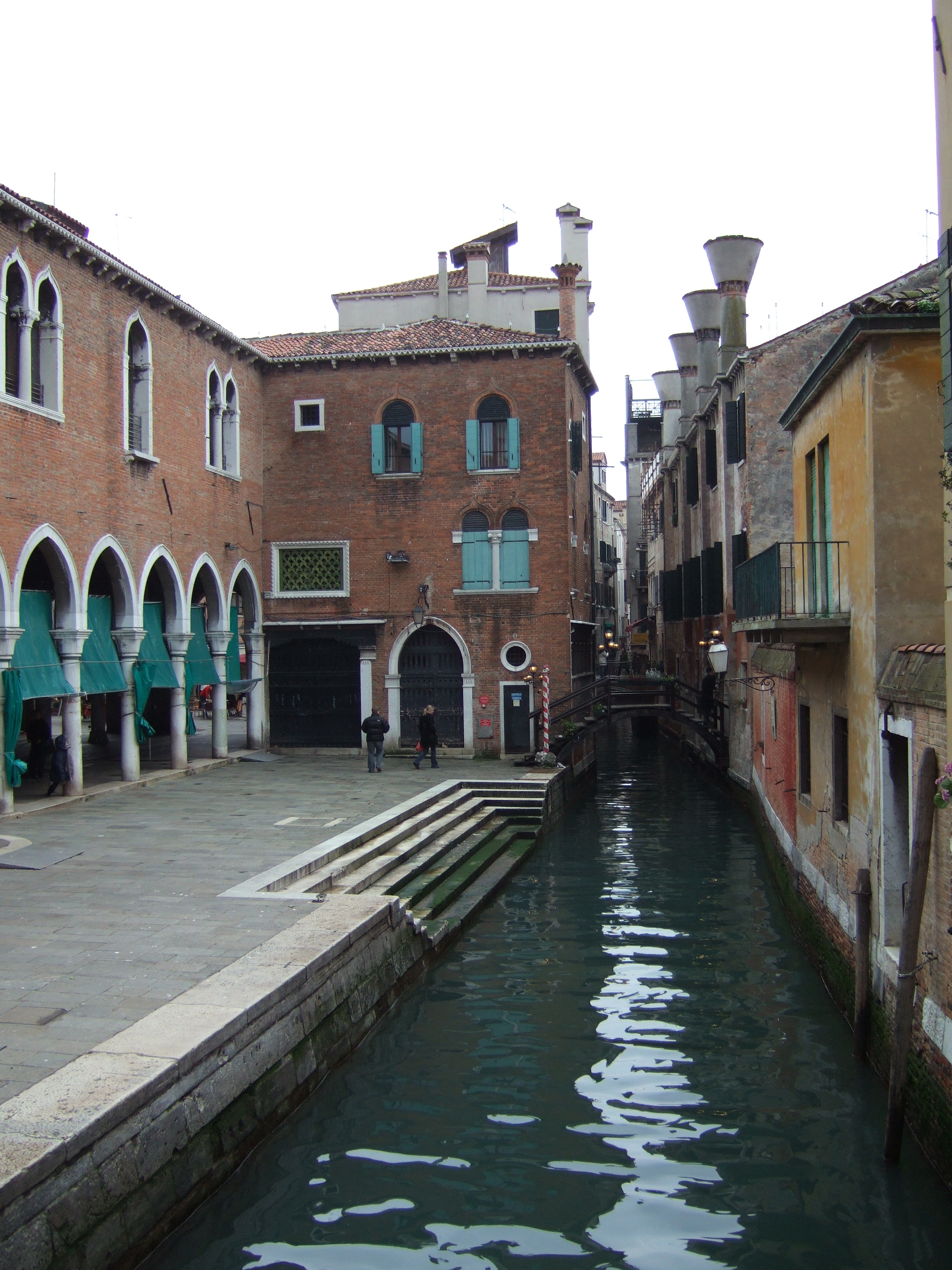 Rio de le Becarie with fishmarket (Mercato del pesce al minuto) to the left (Venice)